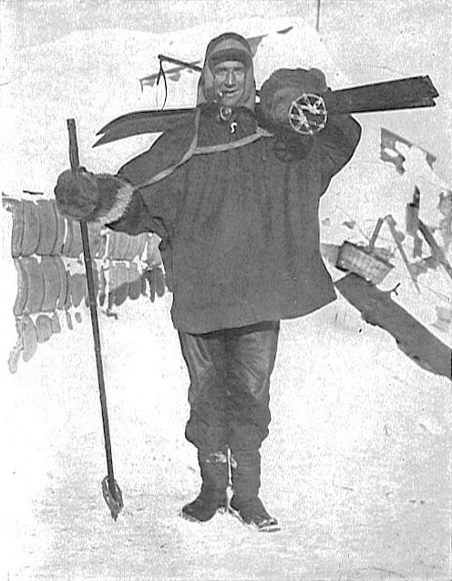 Tom Crean with skis, photographed in 1911-12